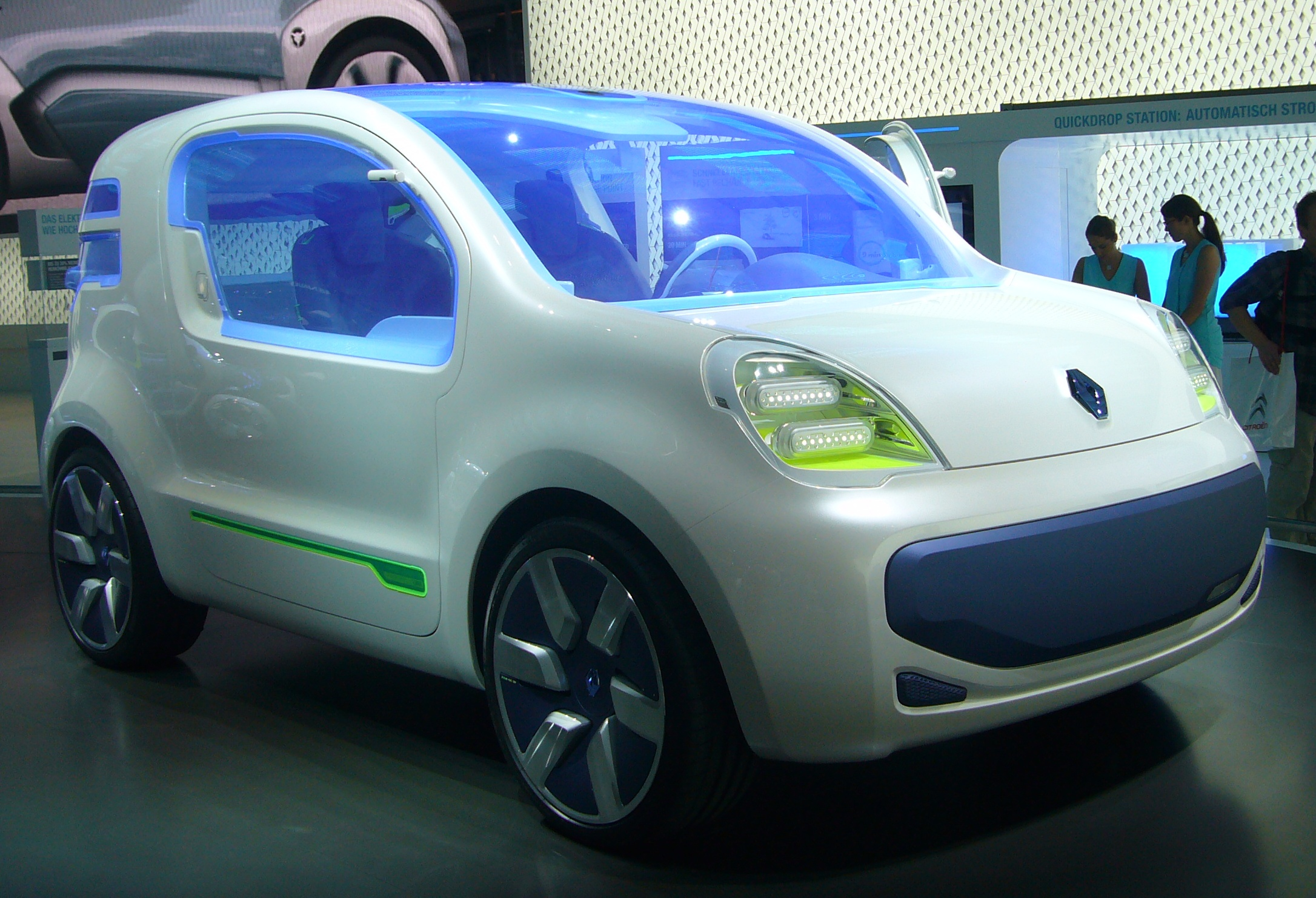 Renault Z.E. Concept at IAA Frankfurt 2009